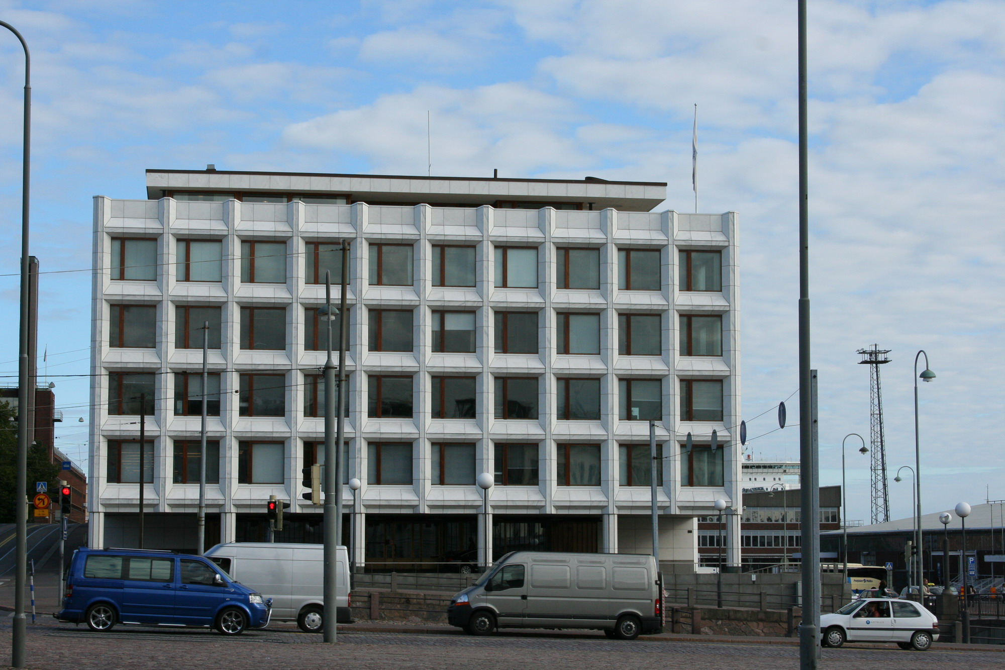 Stora Enso headquarters, Helsinki, Finland. Architect Alvar Aalto.